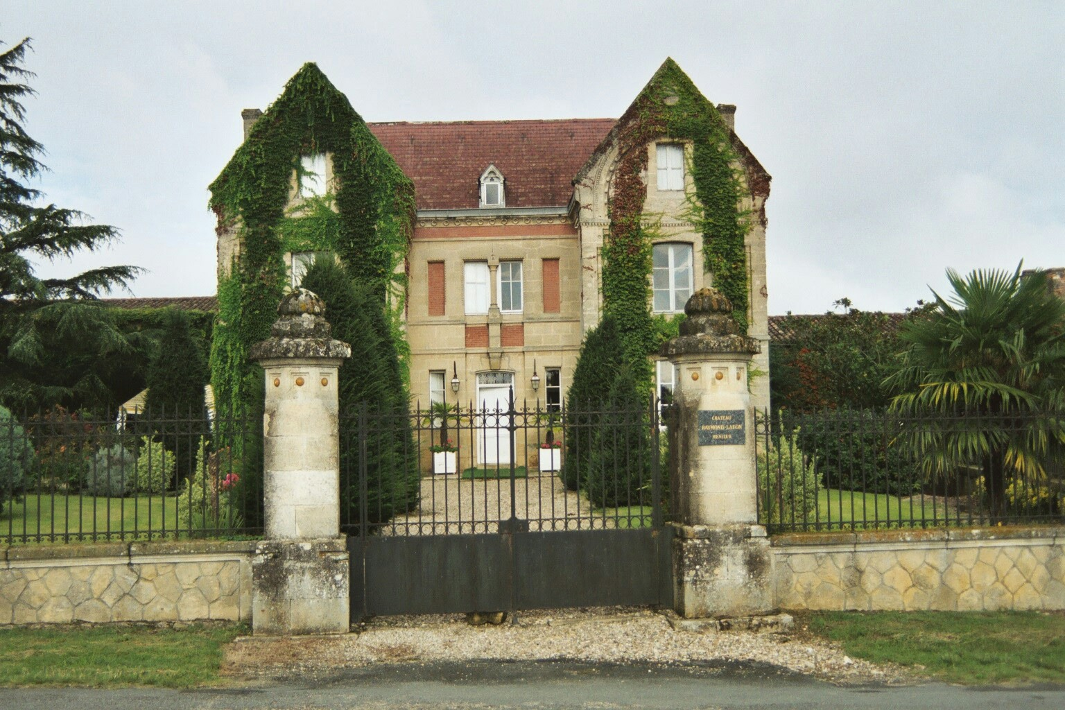 Château Raymond Lafon in Sauternes, photographed in 2002, GNU licence